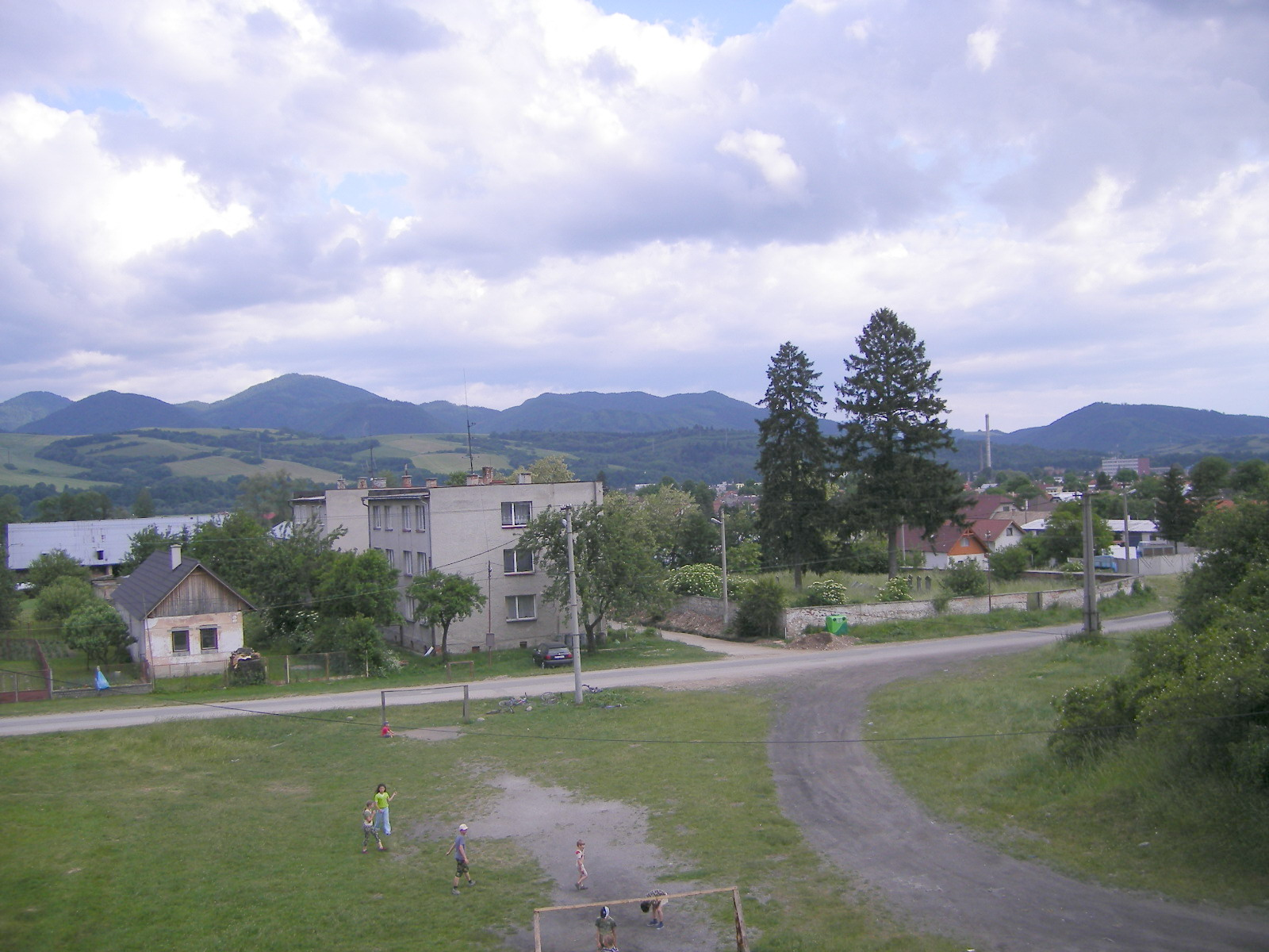 Turany - general view